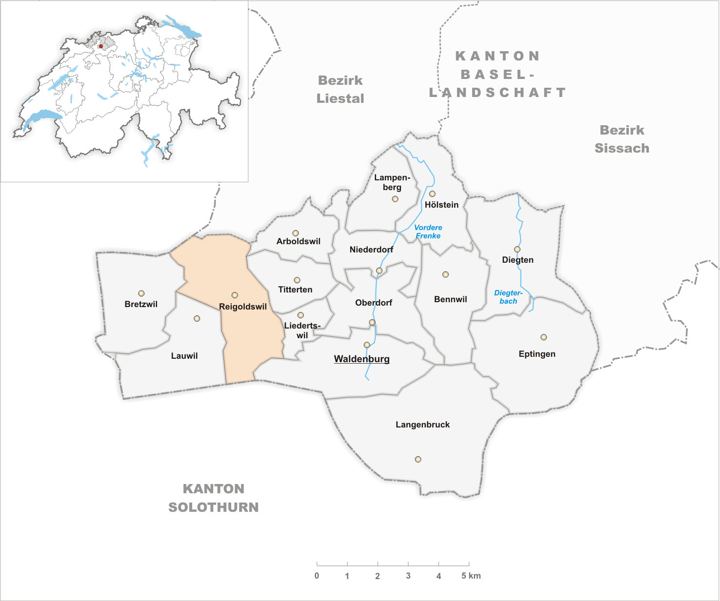 Municipality Reigoldswil